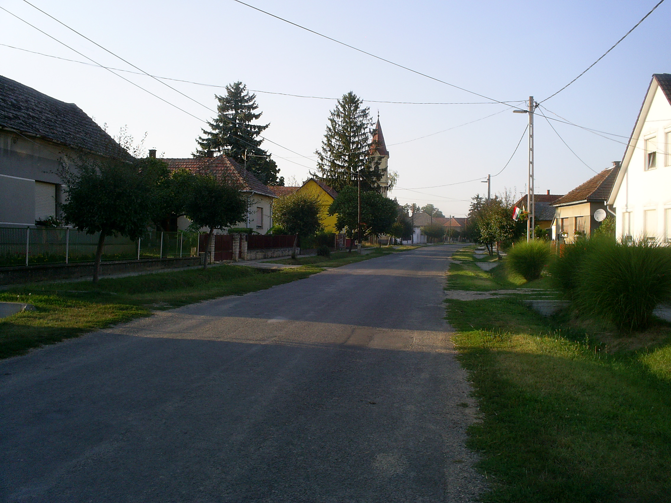 view of Kossuth Str., Merenye